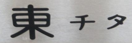 Symbol of Tamachi Rolling Stock Center, marked on its rolling stock